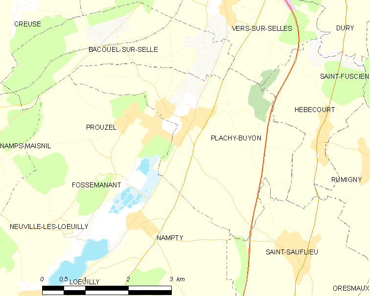 Map of French municipality Plachy-Buyon